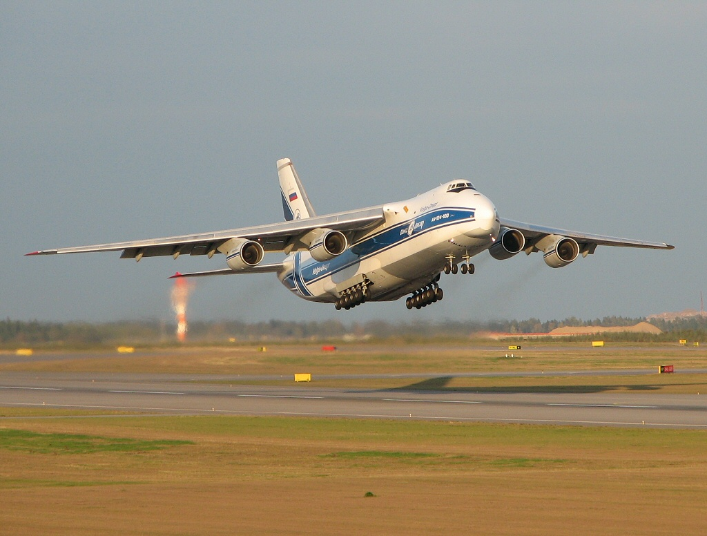 Volga-Dnepr Antonov An-124 Ruslan taking off from Helsinki-Vantaa airport.